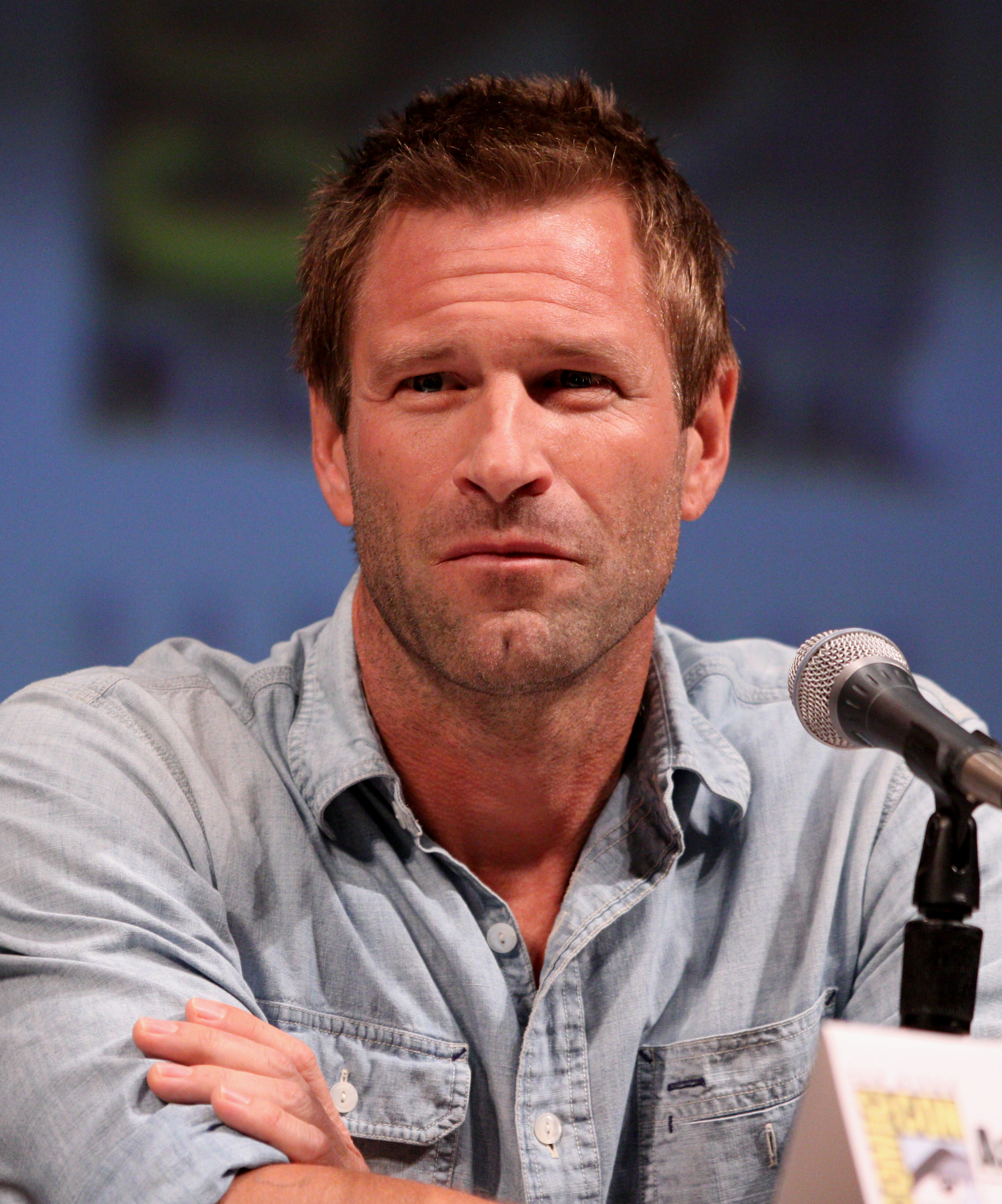 Aaron Eckhart at the 2010 Comic Con in San Diego